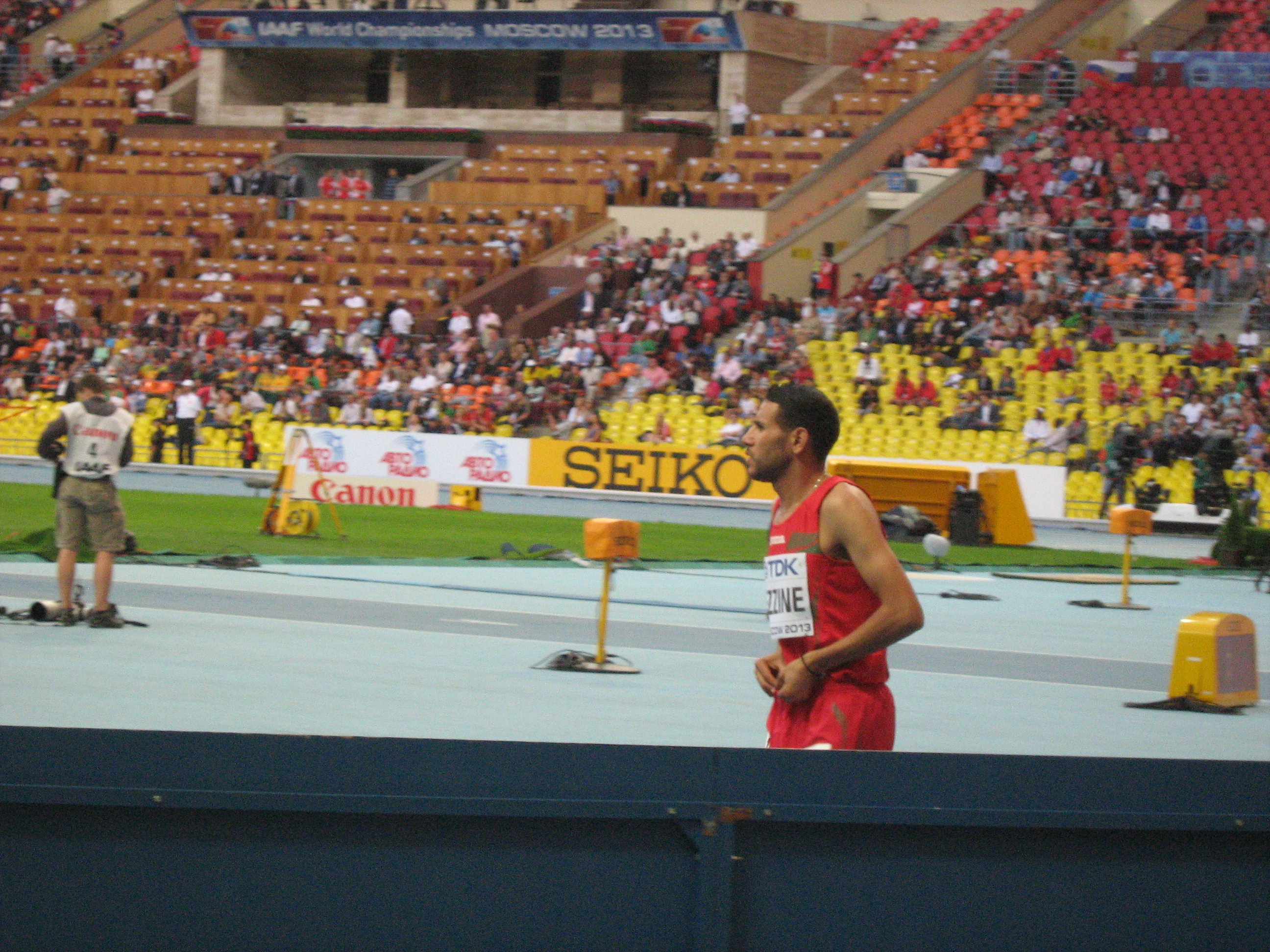 The fifth day of the World Championships in Athletics in Moscow 2013